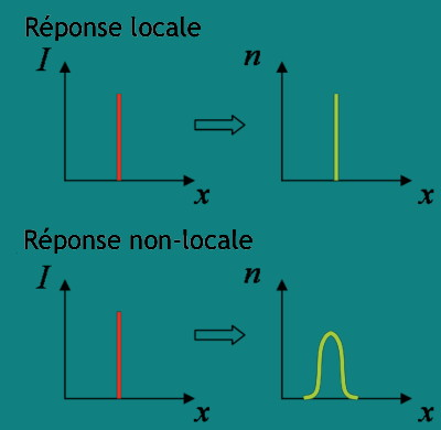 Non local optics response of a medium